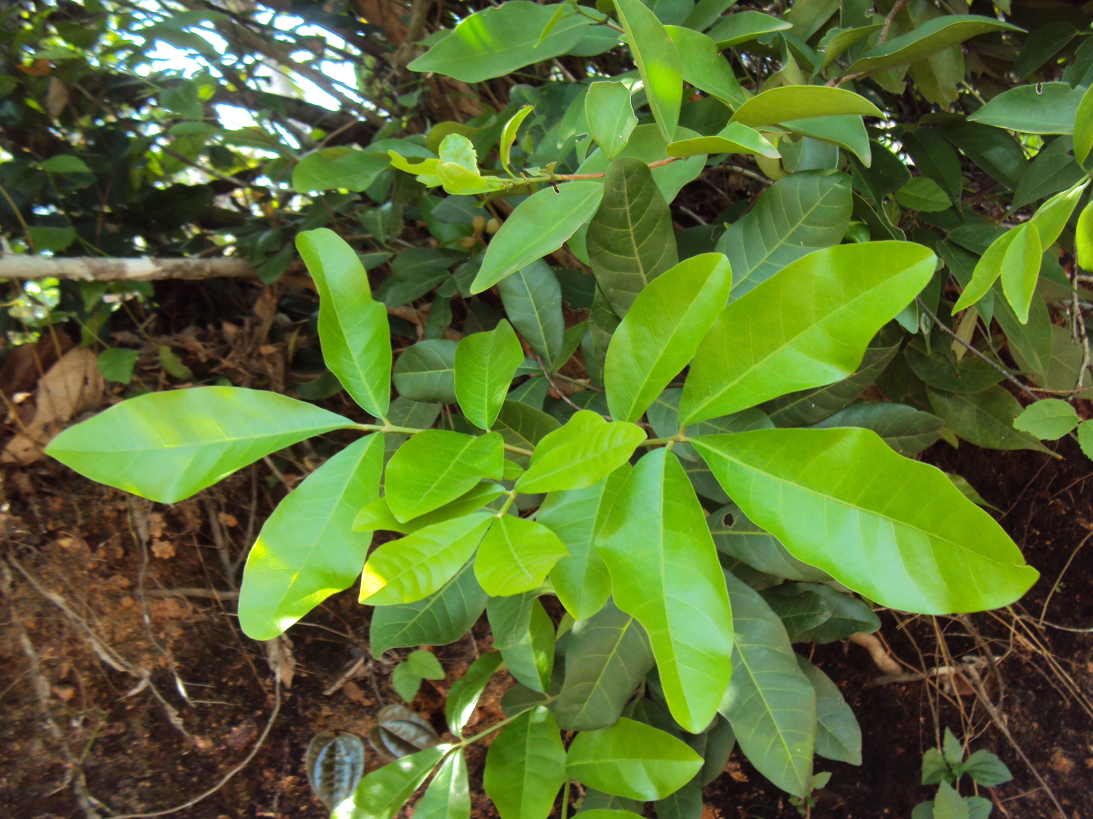 Aglaia elaeagnoidea